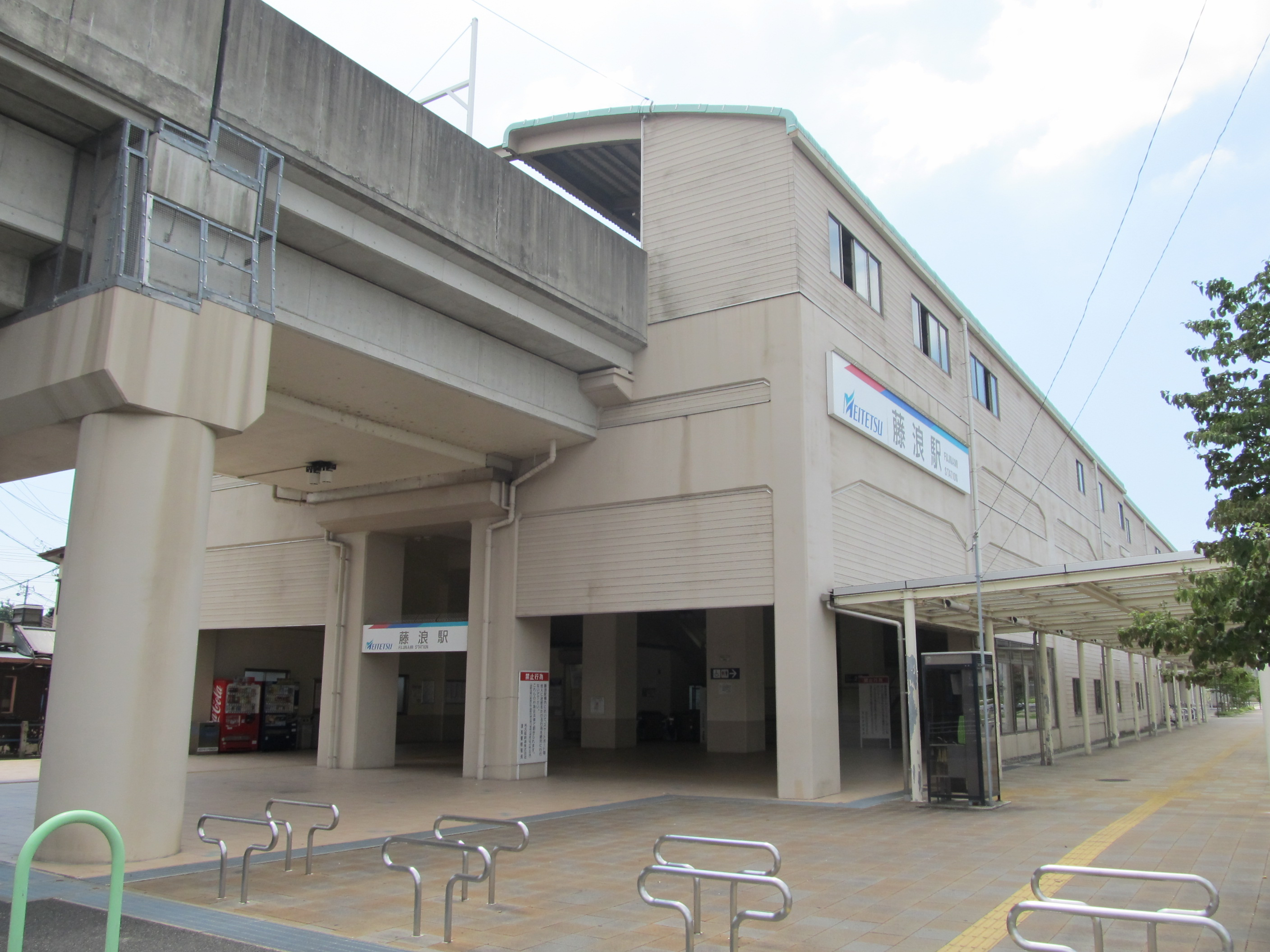 Nagoya Railroad Tsushima Line Fujinami Station Underneath the elevated railway tracks